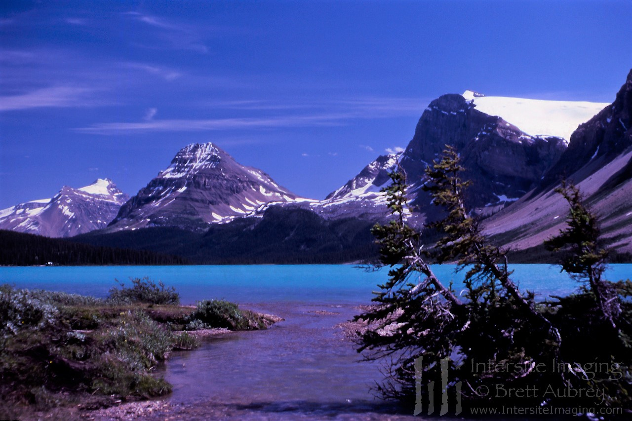 Bow Lake, W:Crowfoot Glacier, Mt. Hector (left) and W:Bow Peak (left of centre). The lake's turquoise hue is caused by glacial till (or glacial flour), primarily from the W:Wapta Icefield's Bow Glacier, off to the right of the photo.